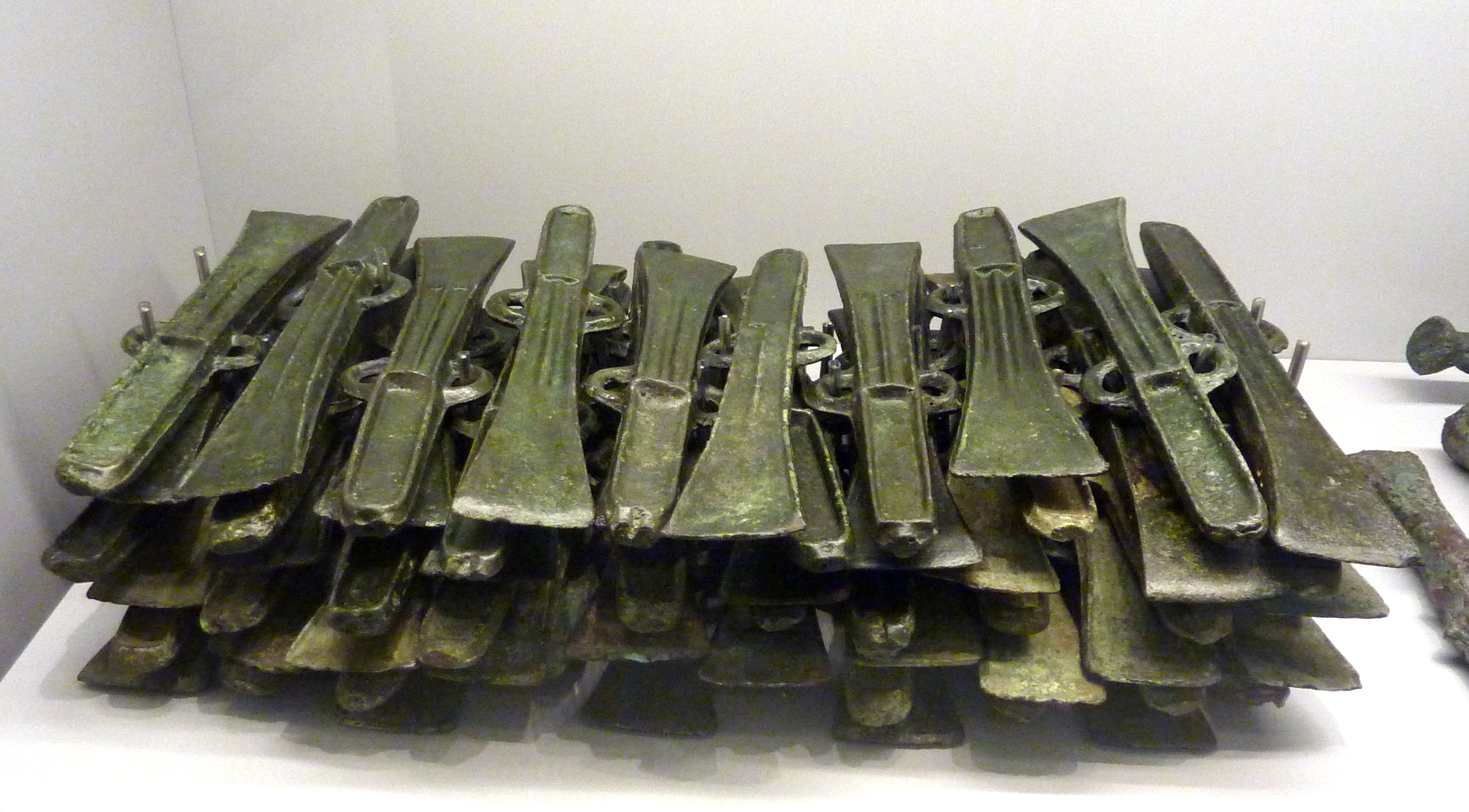 Atlantic Bronze Age Samieira's Hoard, found in Samieira, Poio, Galicia.